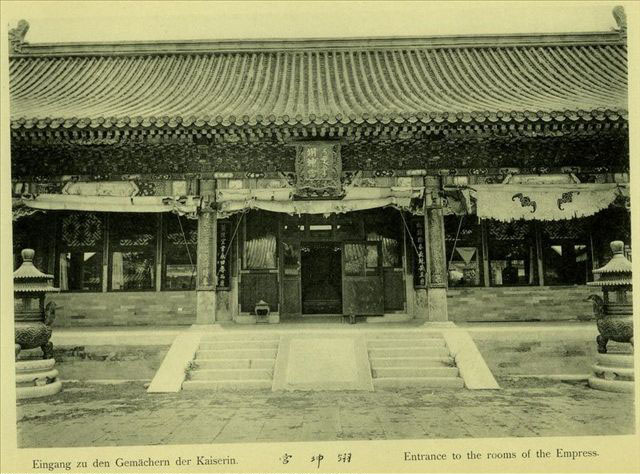 old photo from China 1900-1903, see the file's name for detail.